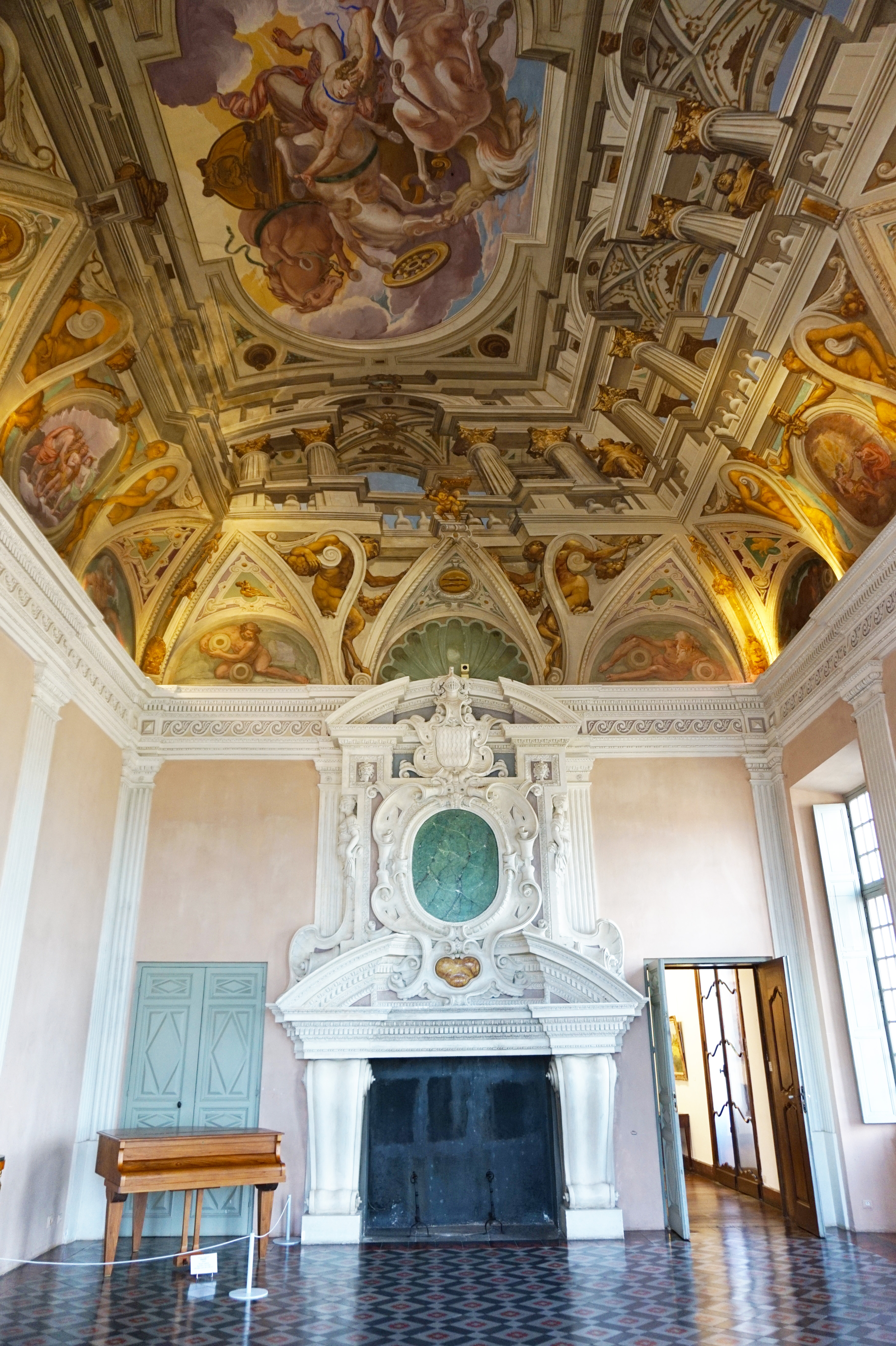 Chateau Musée Grimaldi This photograph was taken with a Sony Alpha a5000.